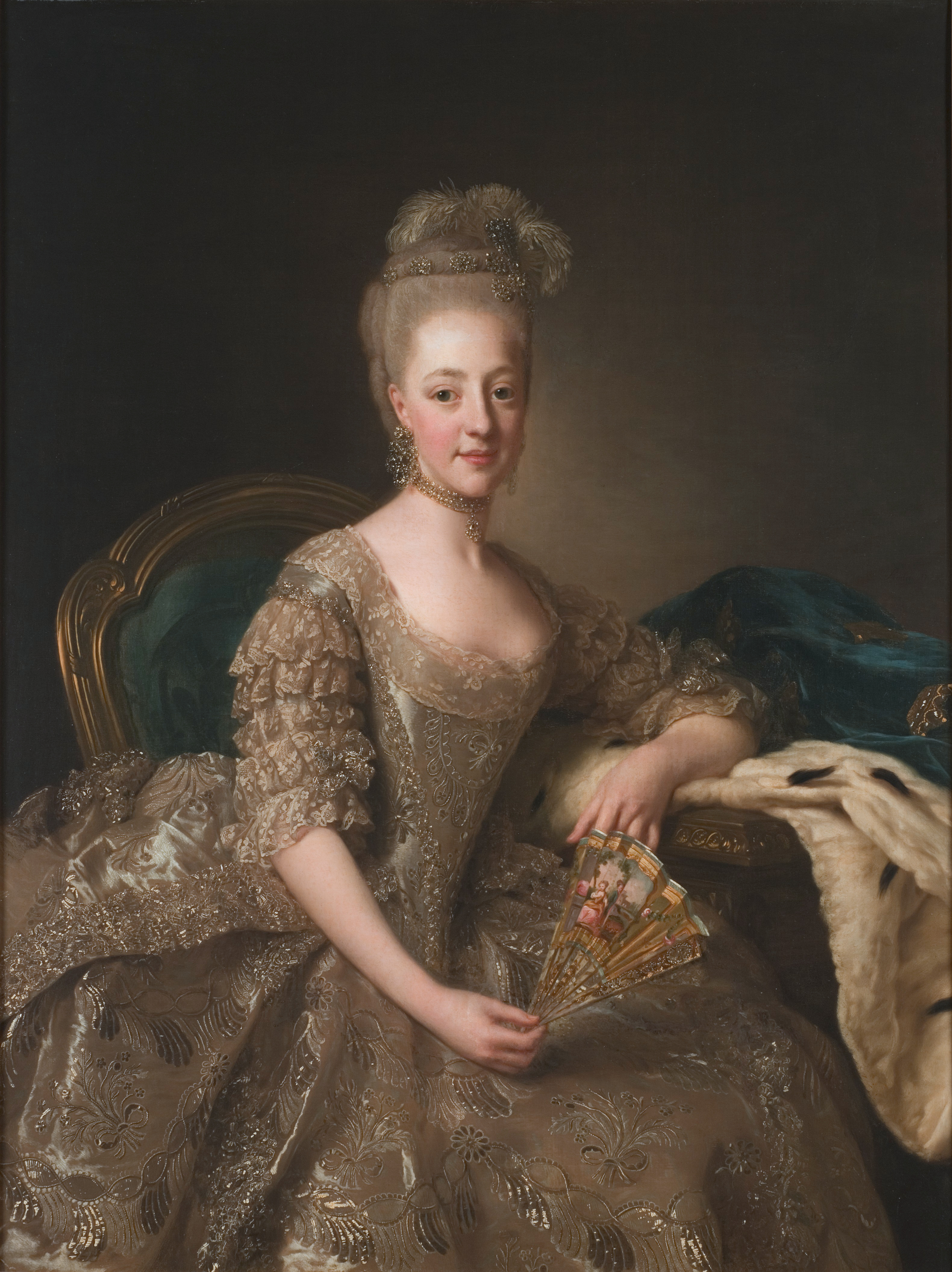 Portrait of Hedwig Elizabeth Charlotte of Holstein-Gottorp (1759-1818)